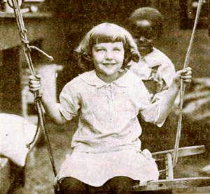 Still from the American film Dolly's Vacation (1918) with Baby Marie Osborne and Ernie Morrison, on page 189 of the January 11, 1919 Moving Picture World.